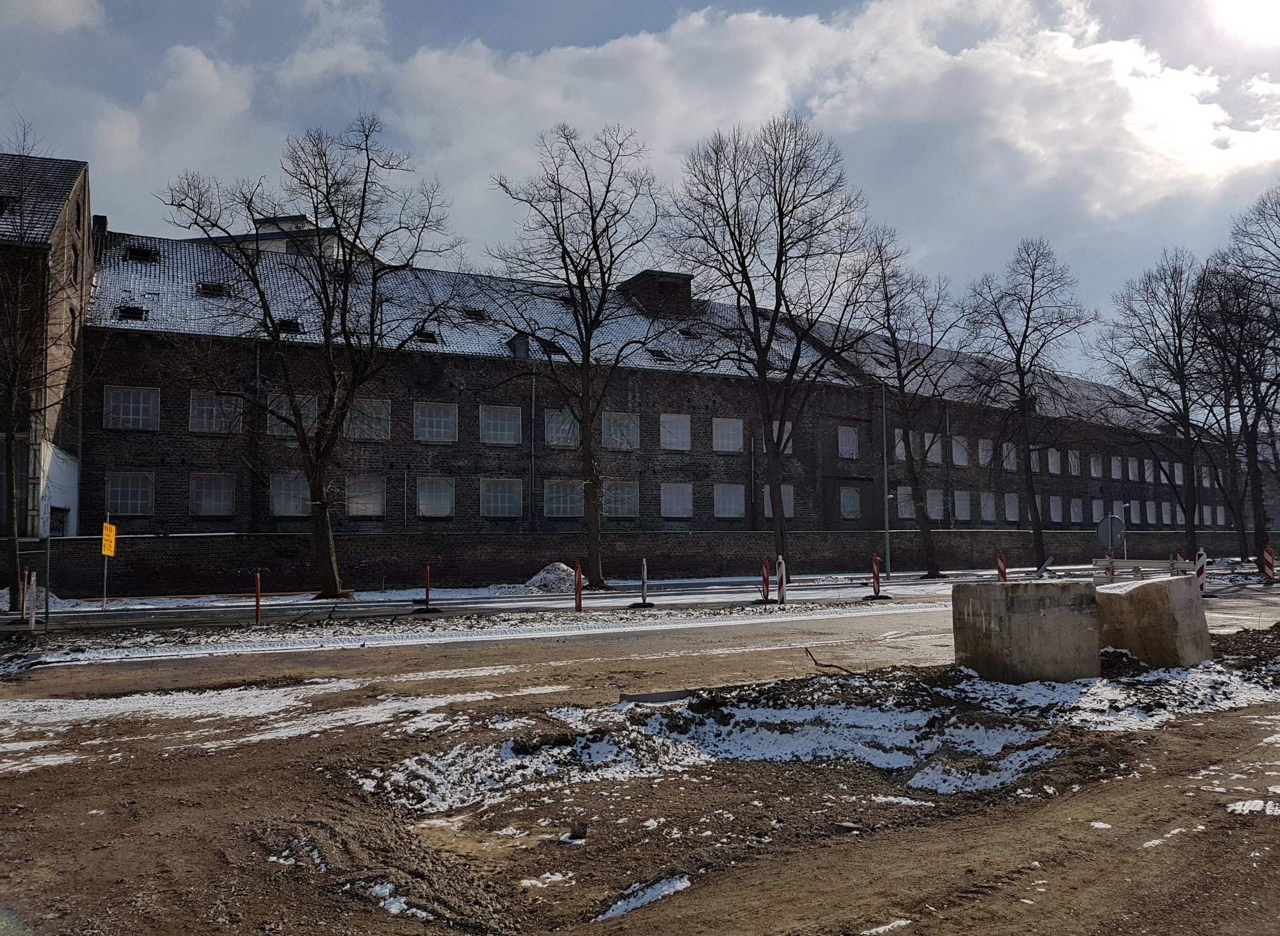 Reconstruction of Frontensingel in Maastricht, the Netherlands. In the background the Mouleurs buildings of former Royal Sphinx potteries.